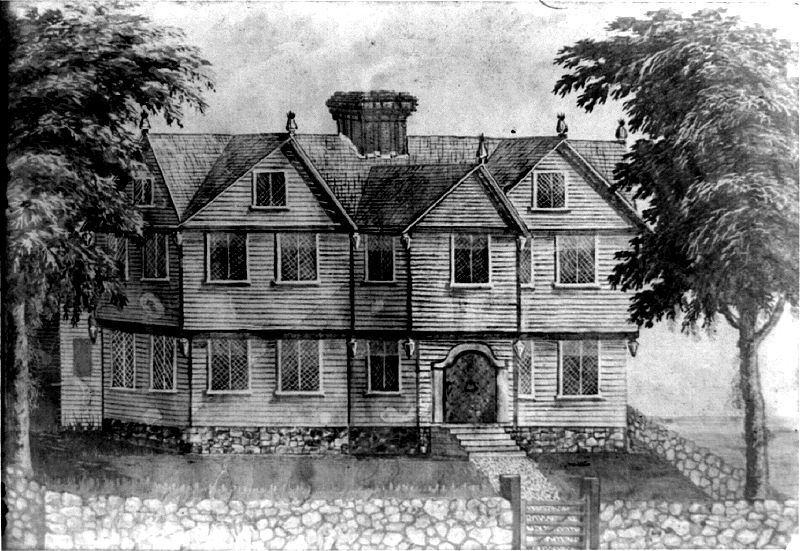 "A View of the house of the late Hon'ble Jonathan Corwin (Judge of the Supreme Court of Massachusets [sic] and member of the council appointed in the new charter, May, 1692). Erected 1642, by Cap't. Geo. Corwin"